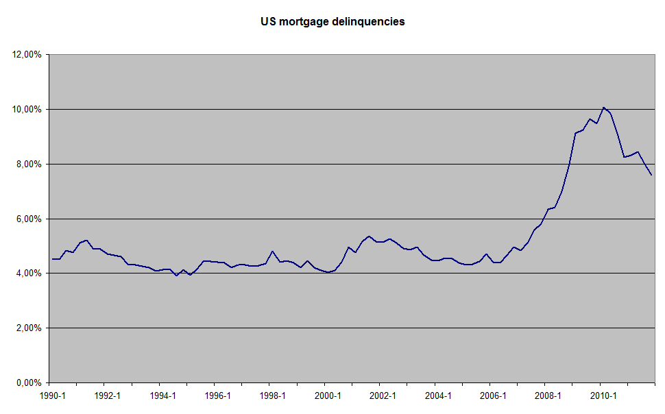 Delinquencies on US mortgages, totals of 30 days+, 60 days+ and 90 days+ delinquencies, but without loans in any stage of foreclosure process, seasonally adjusted figures. Source: Mortgage Bankers Association, National Delinquency Survey, press releases on MBA website. Used on Kredietcrisis.